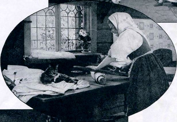 Still (cropped for publication in a magazine) from the Swedish film Ingmarssönerna (1919) (released in the United States as Sons of Ingmar and in the United Kingdom as The Dawn of Love), on page 25 of the May 1922 Film Fun.